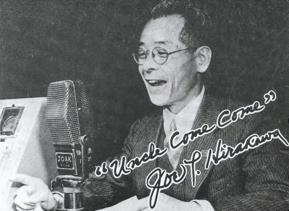 Tadaichi Hirakawa's portrait, published in early 1950s or earlier